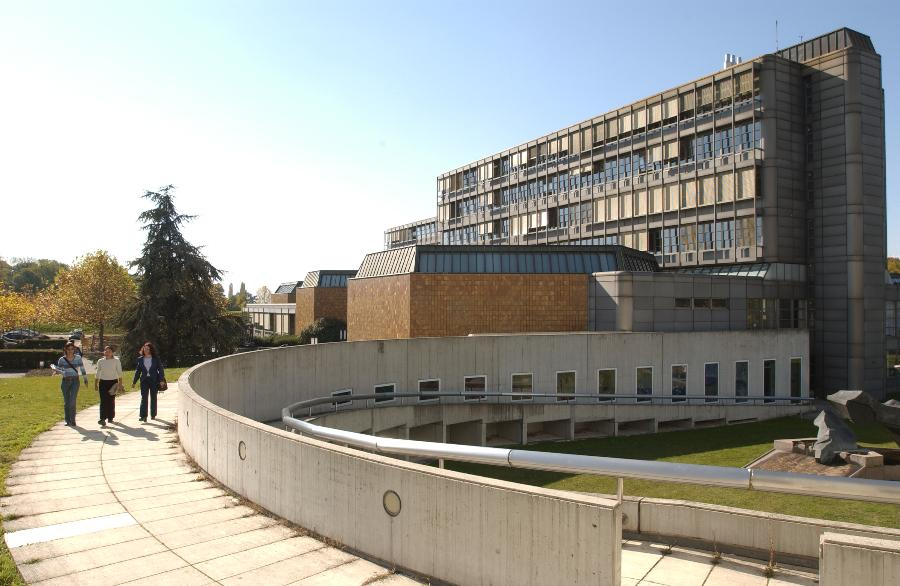 Main building of HEC Lausanne, the affiliated business school of the University of Lausanne